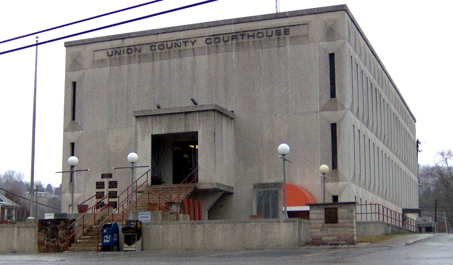 Union County Courthouse in Maynardville, Tennessee, in the southeastern United States.